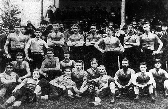 Photo of the champion Port Adelaide Football Club players from the 1884 SAFA season. From left; G. Cairns, T. Nosworthy, C, Fry, C. Kellett, R. Hosie, R. Turpenney (Capt.), J. Litchfield (Vice-capt.), T. Turnbull, W. Buchan, R. Kerr, M. Smith, E. Raven, W. Bushby, J. Noel, R. Kirkpatr.